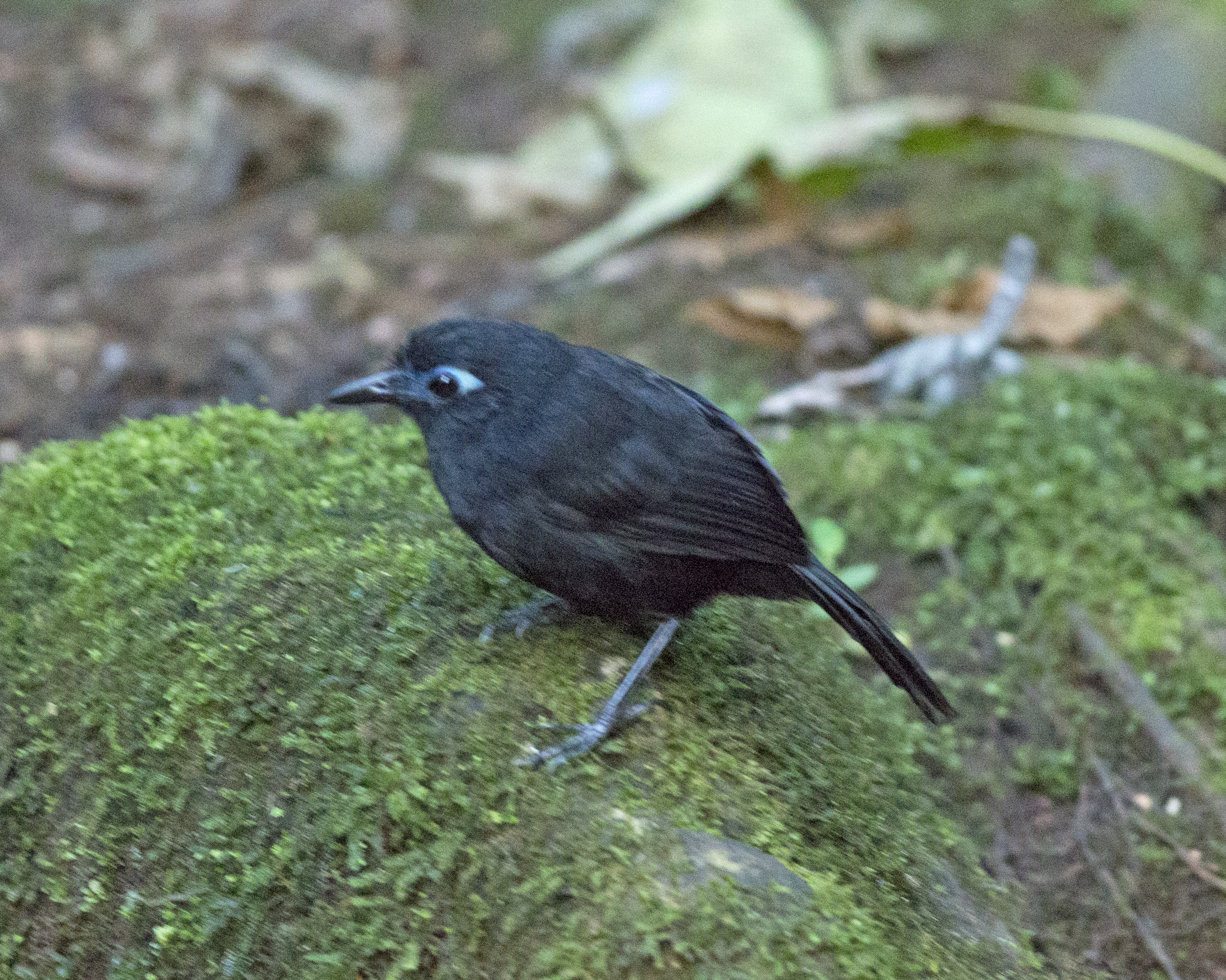 Immaculate Antbird Myrmeciza immaculata Myrmeciza immaculata macrorhyncha Tandayapa, West of Quito Ecuador 10th. August 2014 CF2P2752